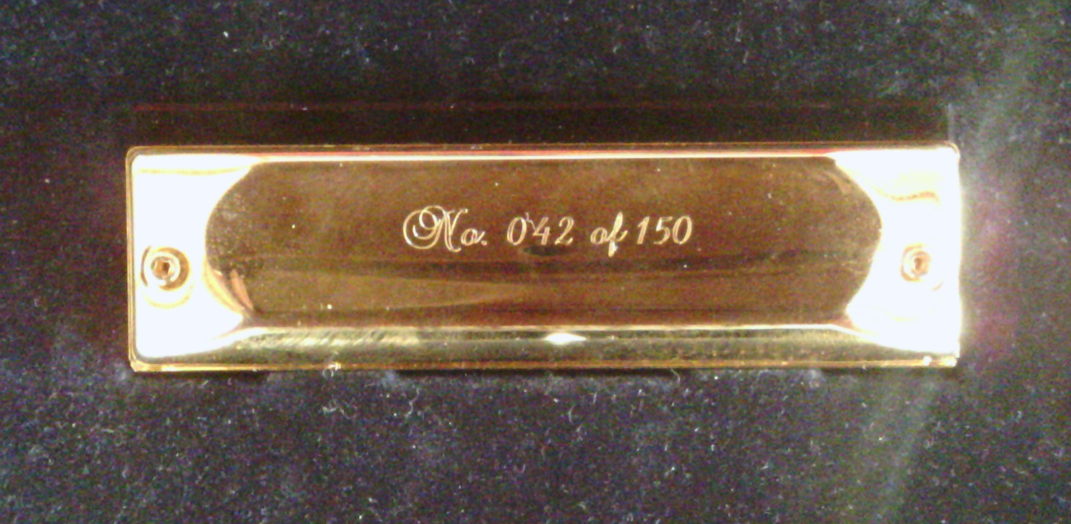 image of Hohner Gold 150 aniversary edition engraved back